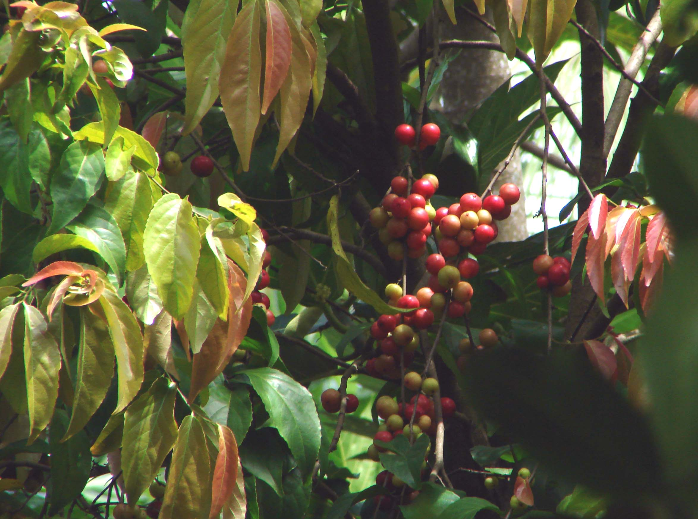 Lovi (Flacourtia inermis) is cultivated in Malaysia, Indonesia, and Sri Lanka for both its fruit and decorative foliage. The fruits are round, cherry-sized, and dark red when ripe. Some are sweet, but most are sour and astringent, and normally used for making jams and syrups.